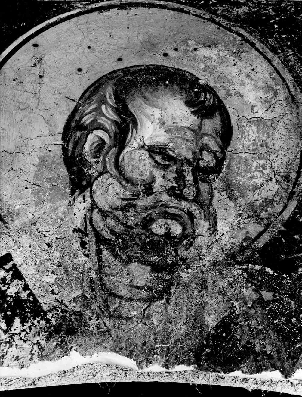 Fresco of St. Gregory the Thaumaturgos, prothesis in Church of the Theotokos Peribleptos in Ohrid, Macedonia